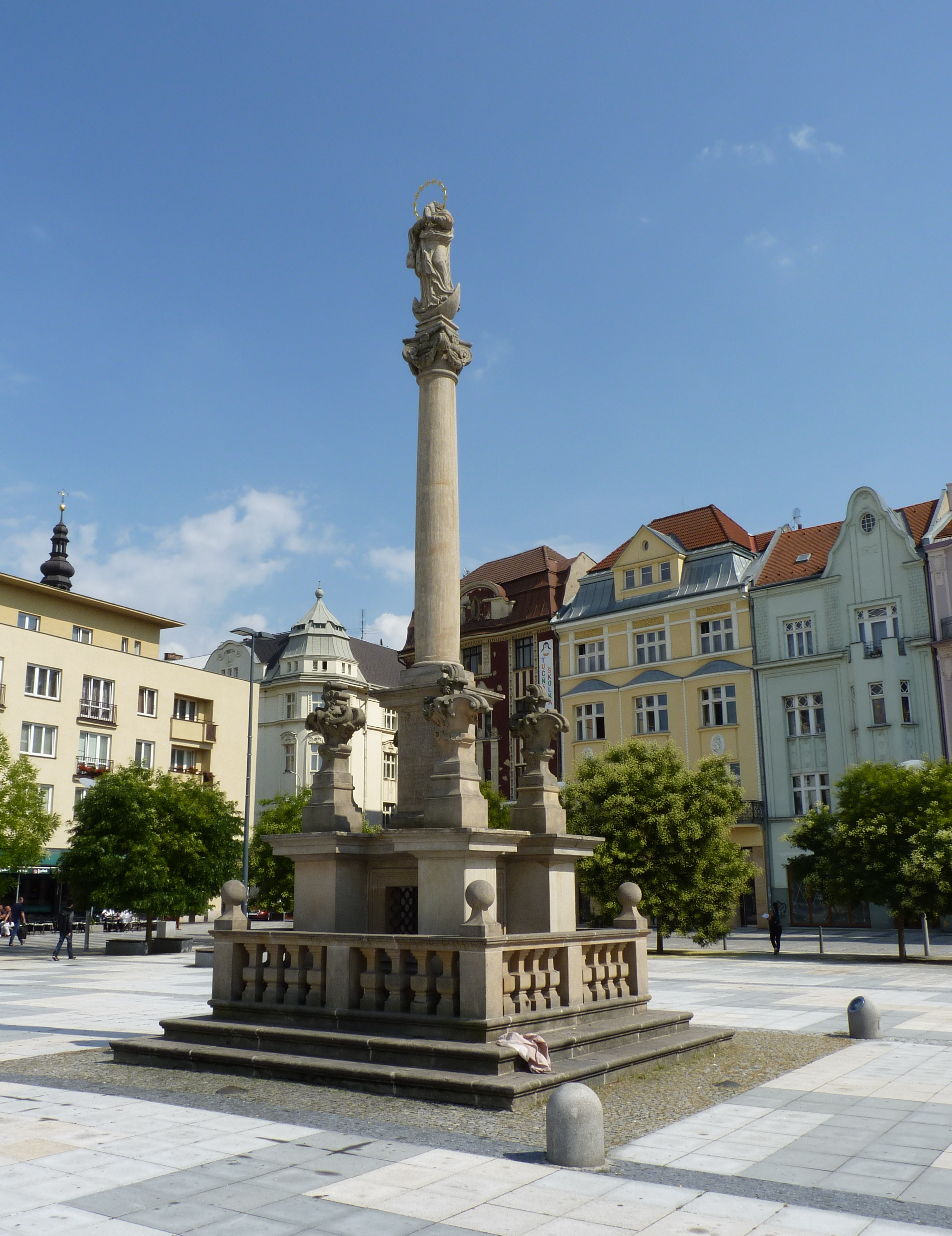 Maria column at Masaryk square. Ostrava, Moravian-Silesian Region, Czech Republic